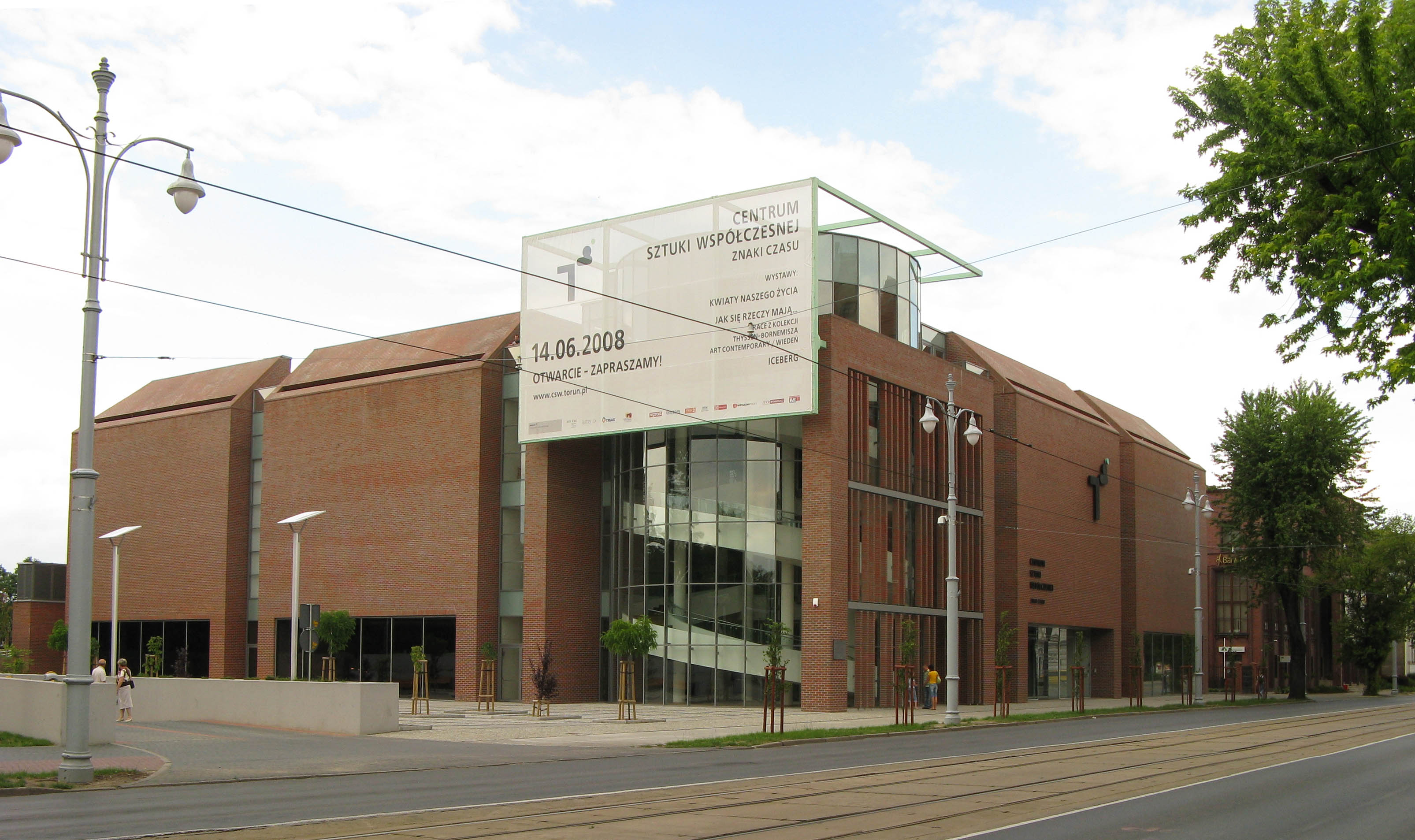 Center of Contemporary Art in Toruń